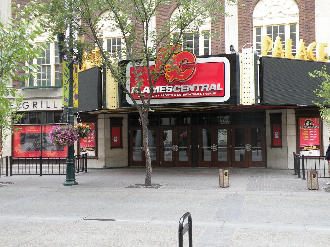 Picture of Flames Central, a Calgary bar owned and operated by the Calgary Flames hockey club.